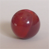 Single red paintball